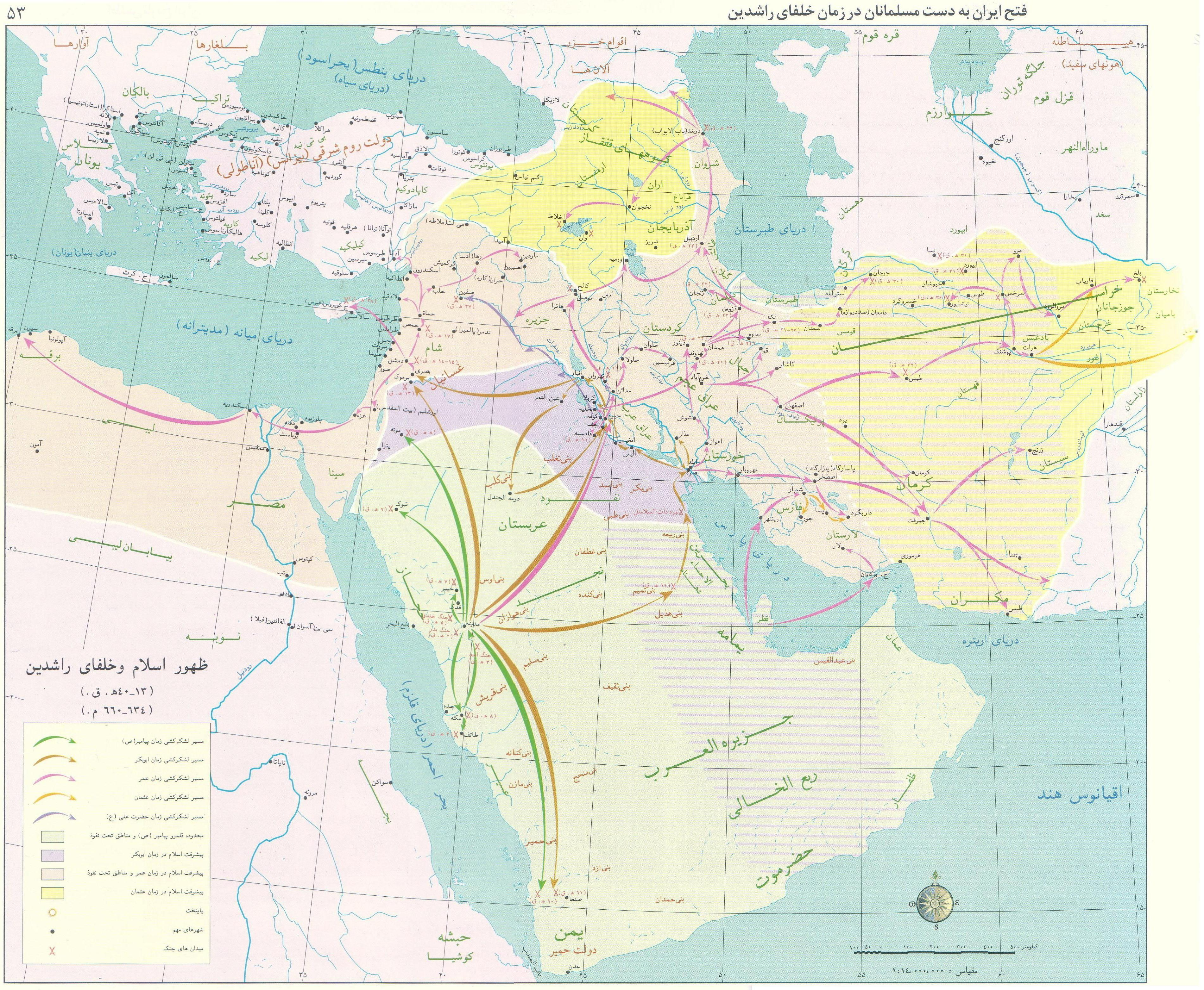 map of Iran during the arab invasion 634-660 AD